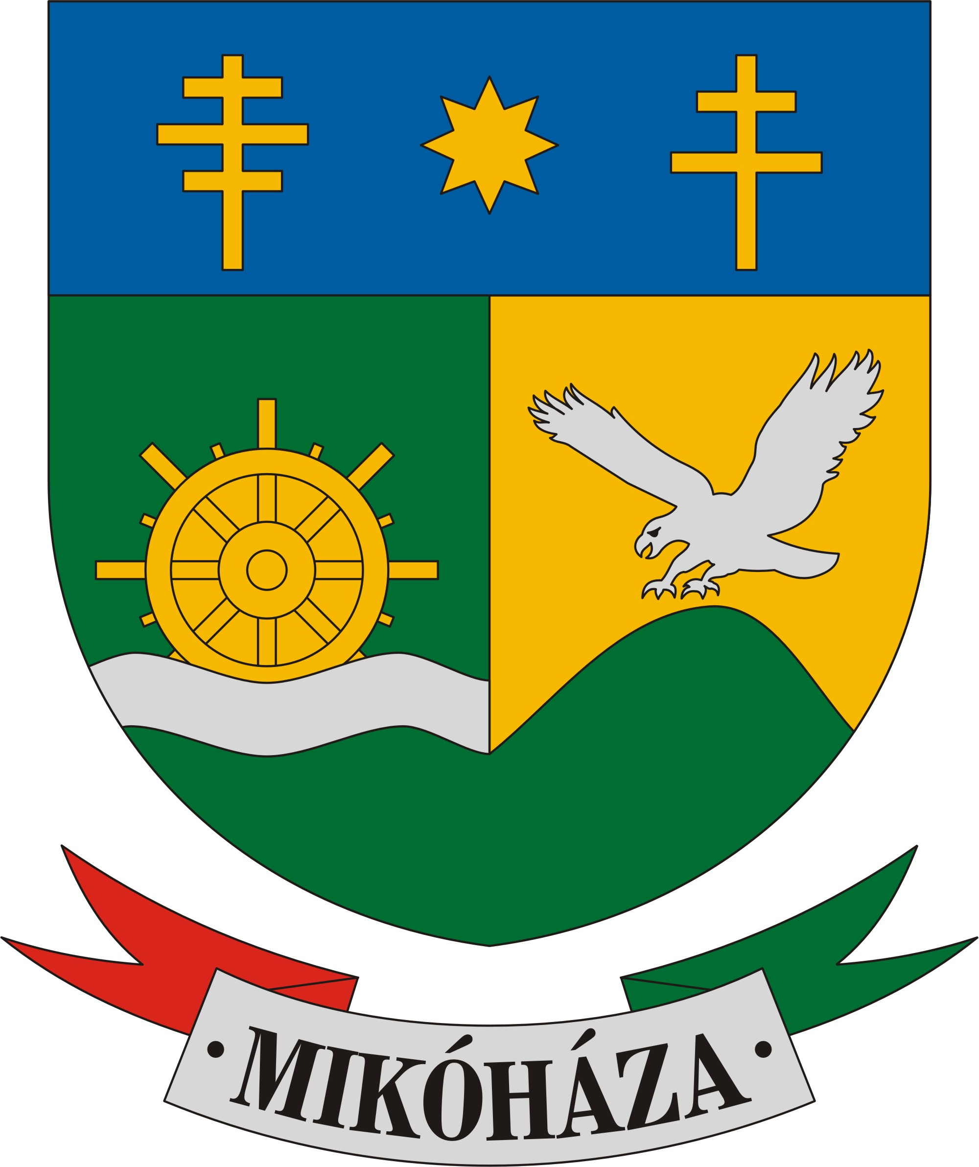 Coat of arms of Mikóháza, Hungary